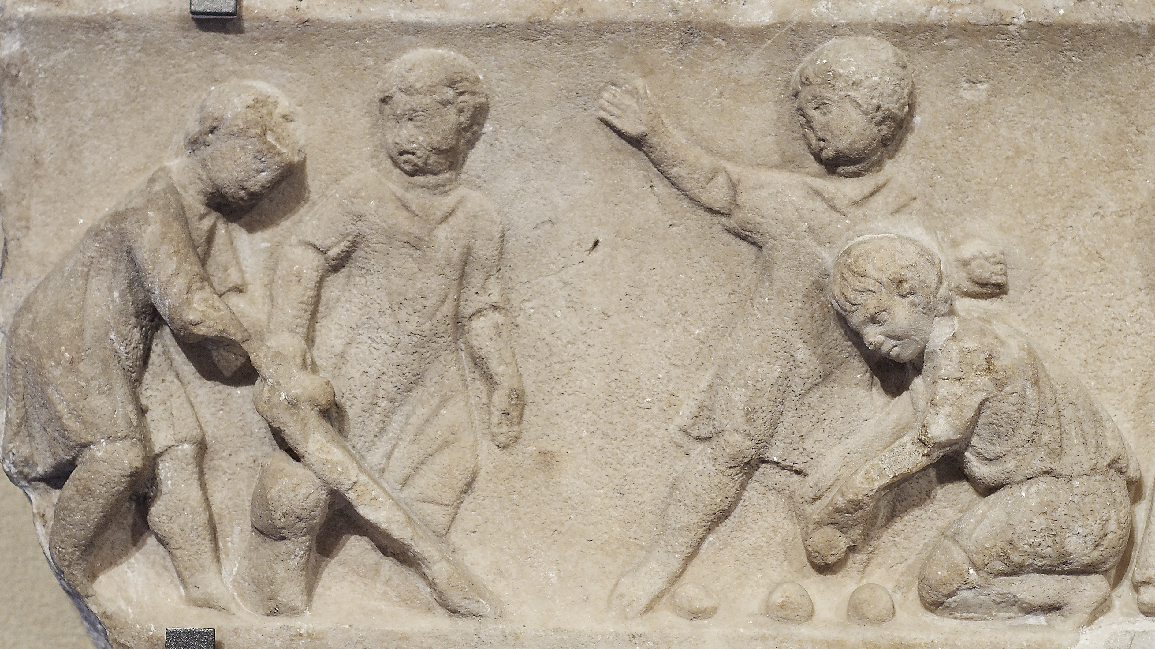 Children playing ball games, detail. Marble, Roman artwork of the second quarter of the 2nd century AD. Provenance unknown.